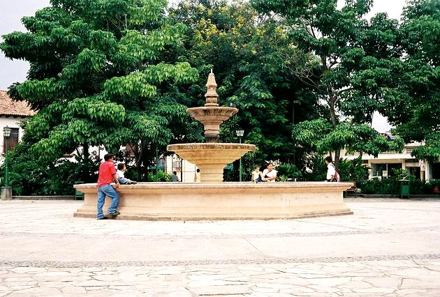 Plaza of Comayagua, municipality in the Honduran department of Comayagua.